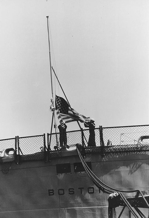 Photo #: NH 98301 USS Boston (CA-69) Crewmen lower the colors for the last time, during the cruiser's decommissioning ceremony at the South Boston Annex, Boston Naval Shipyard, Massachusetts